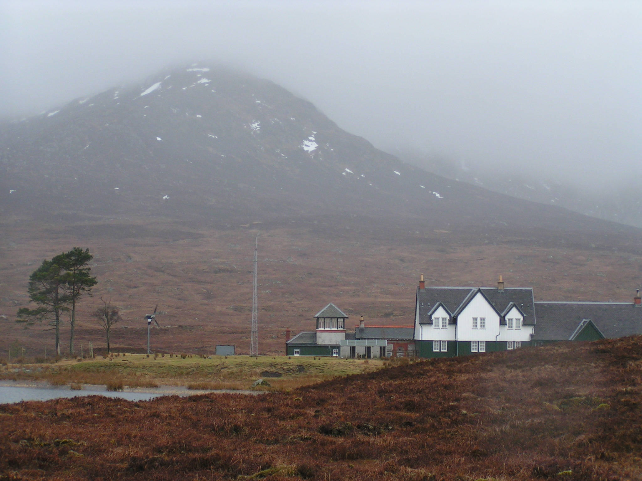 Corrour Station looking towards Leum Uilleim. Photographed by James Gray, March 2004.